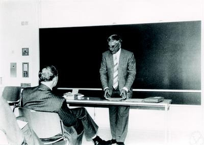 Gerrit Lekkerkerker, Wien 1987